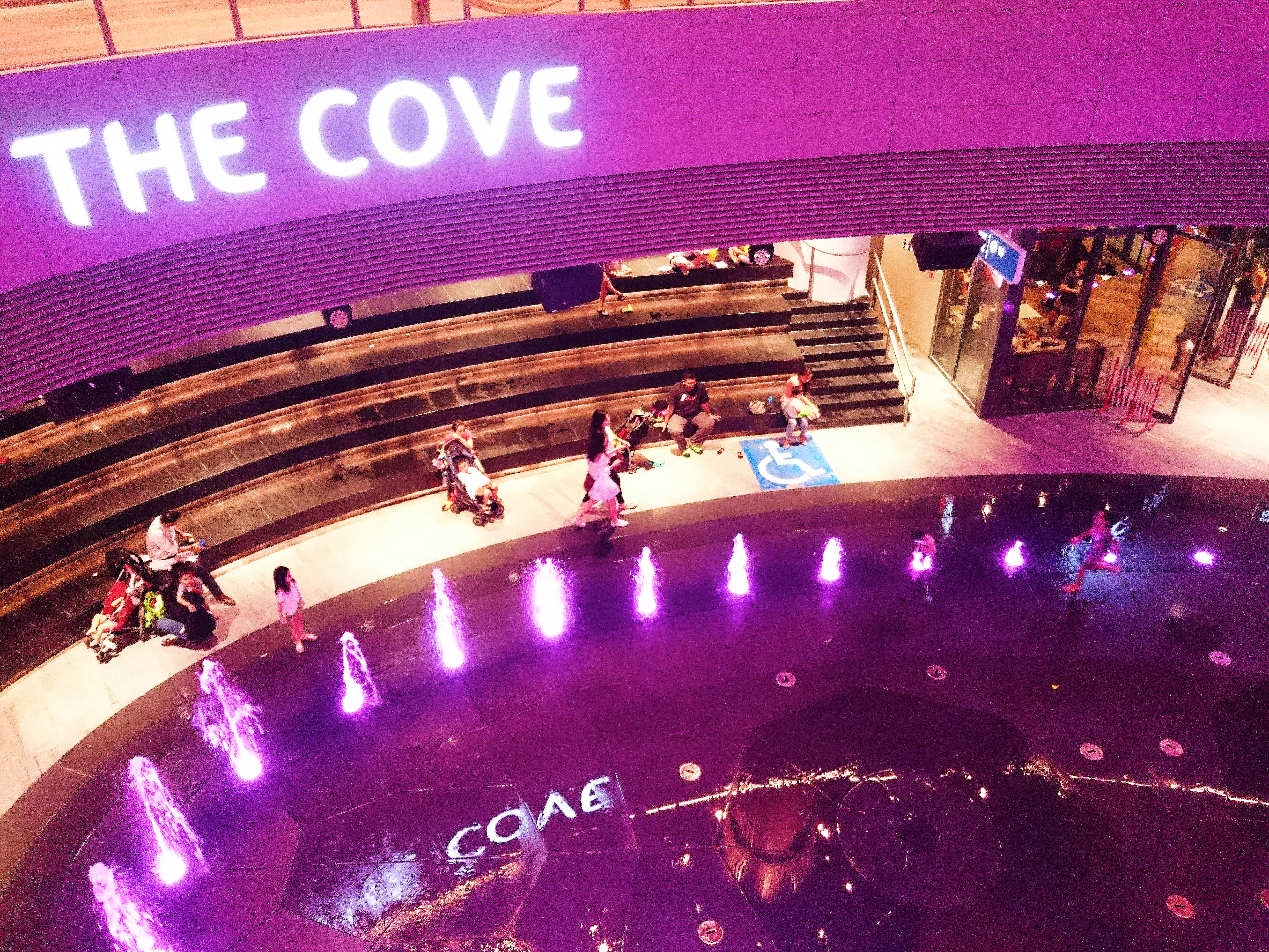 The Cove event area at Waterway Point. Taken with Xperia Z3